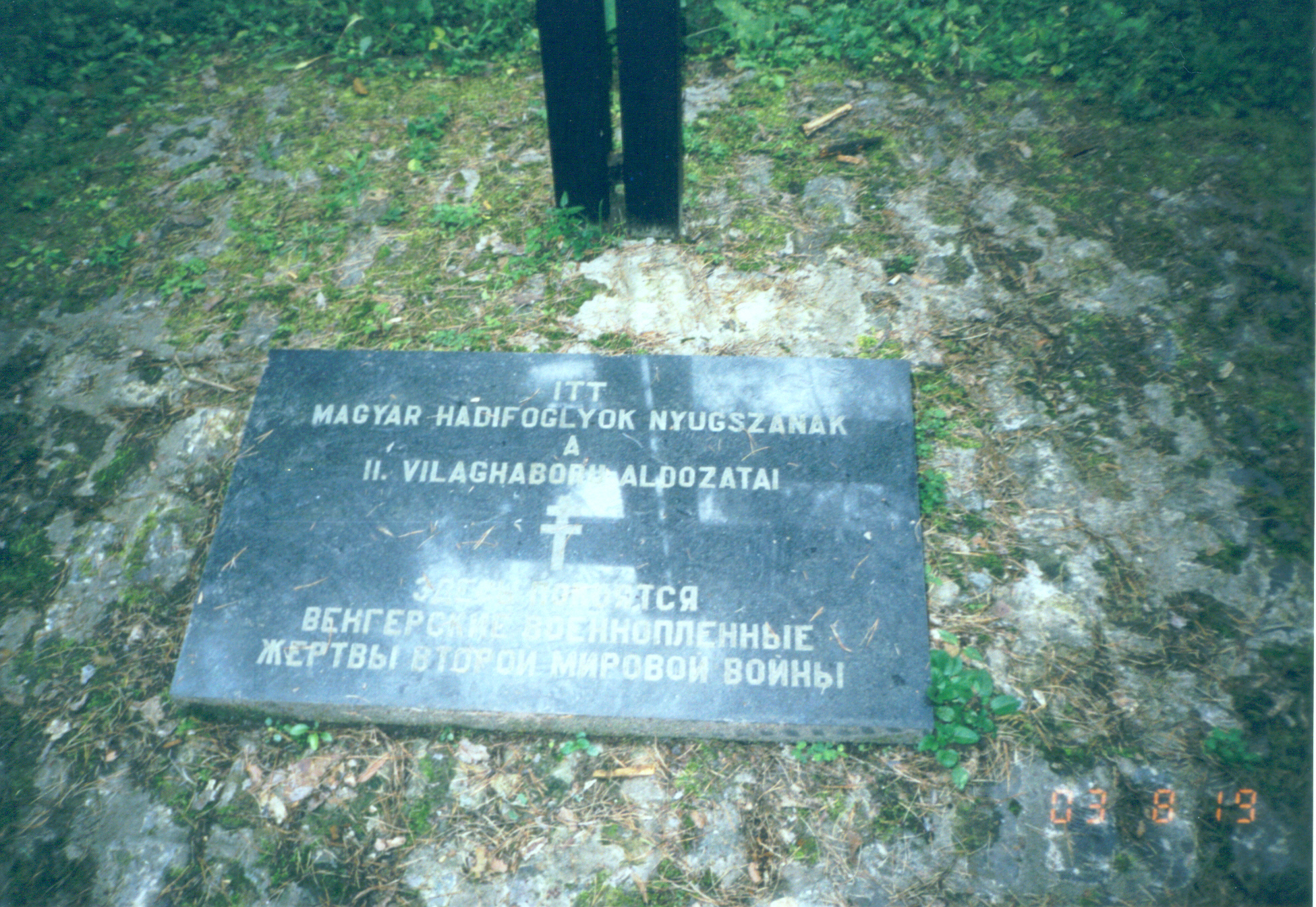 Hungarian and German soldiers' grave in Udmurtia.